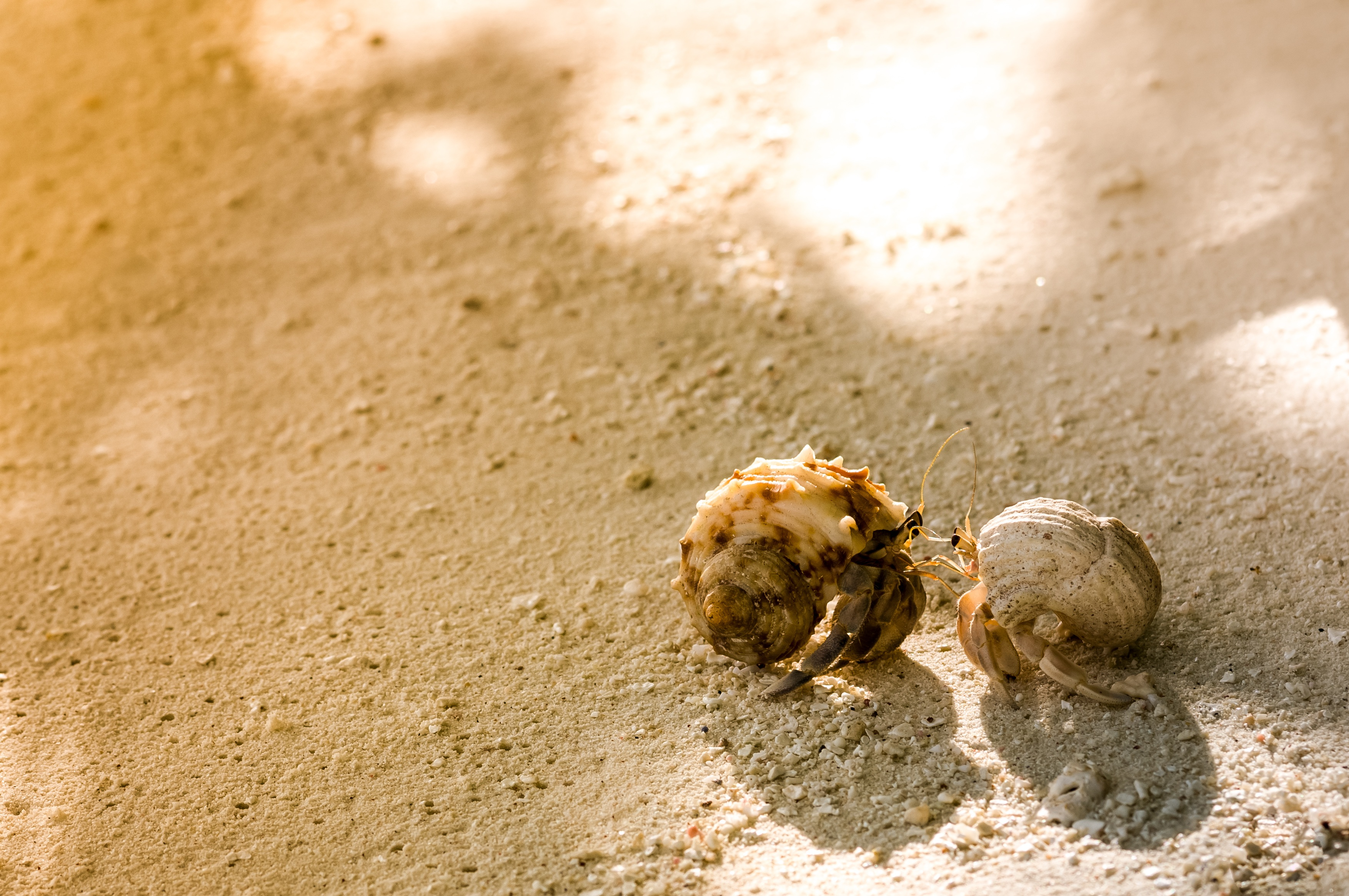 Couple of hermit crabs